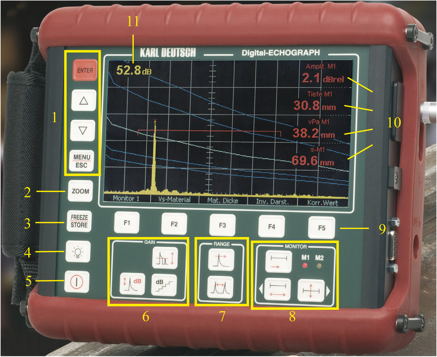 ultrasound measuring instrument Adjustments Monitor-Zoom Storage Display-Illumination Power Gain Range Monitor 1 + 2 Function Keys Measured value Gain Display